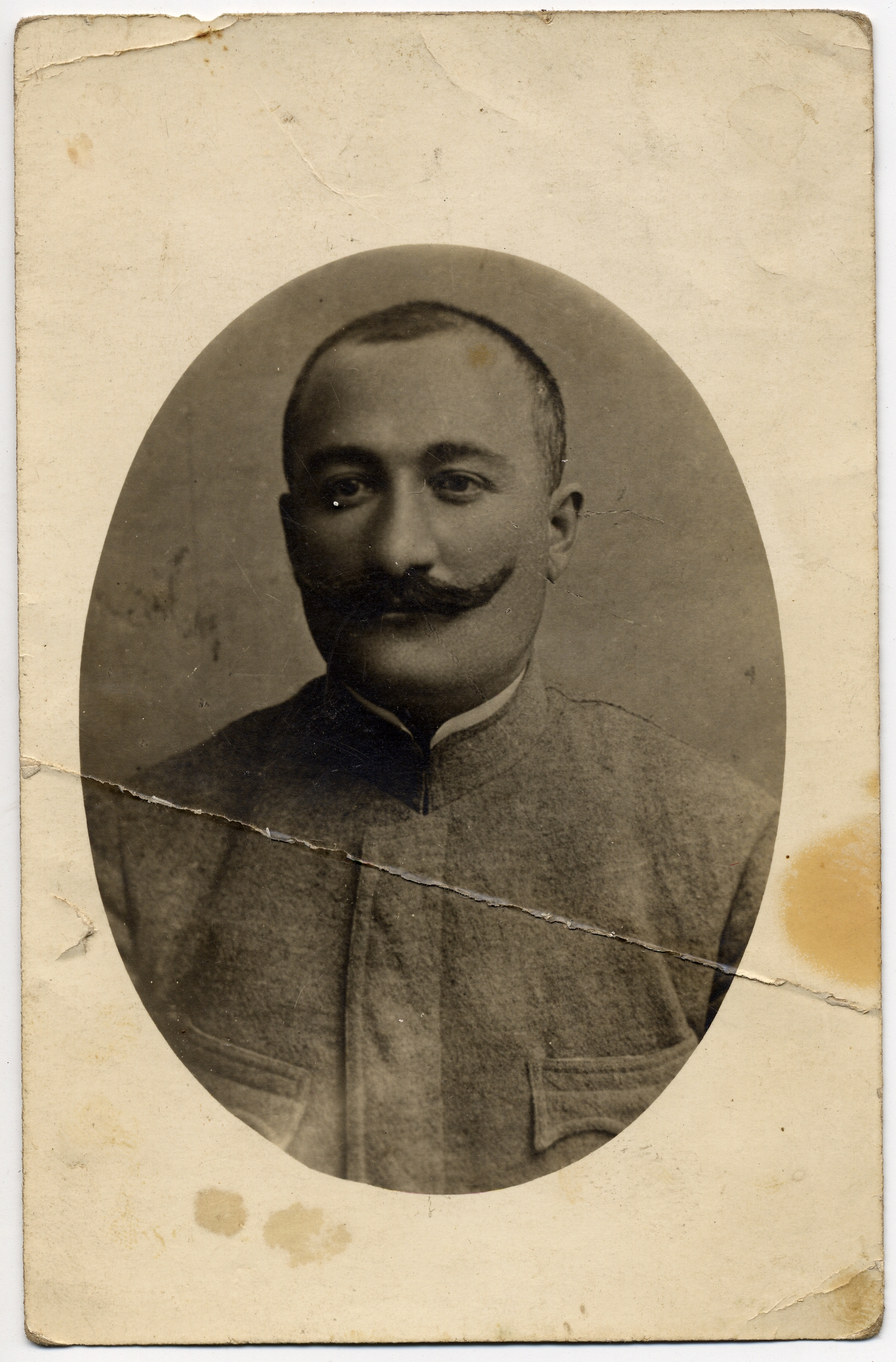 Japarize trifoni